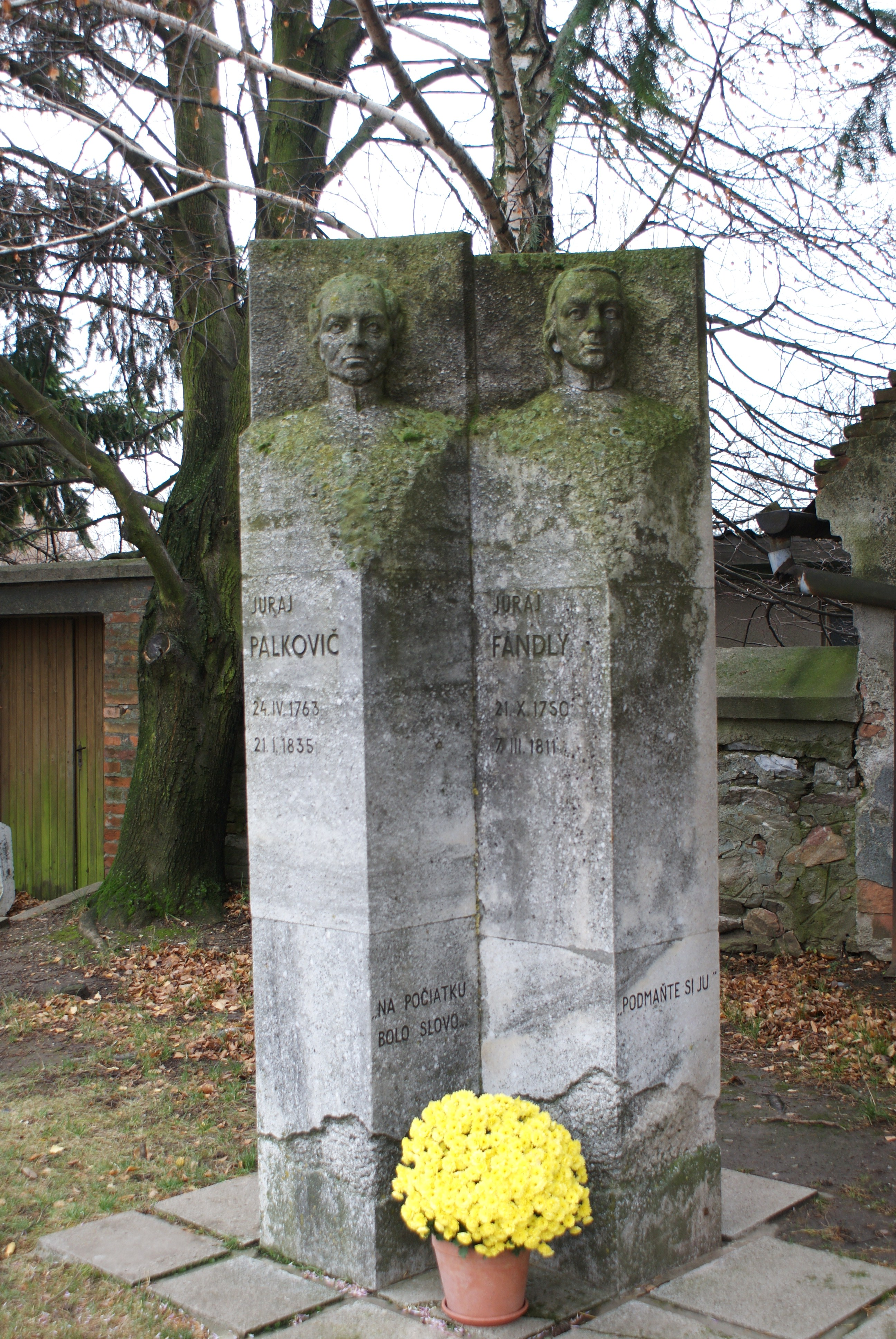 Doľany, a village in Pezinok district, Slovakia, Juraj Pálkovič and Juraj Fándly memorial next to the church.